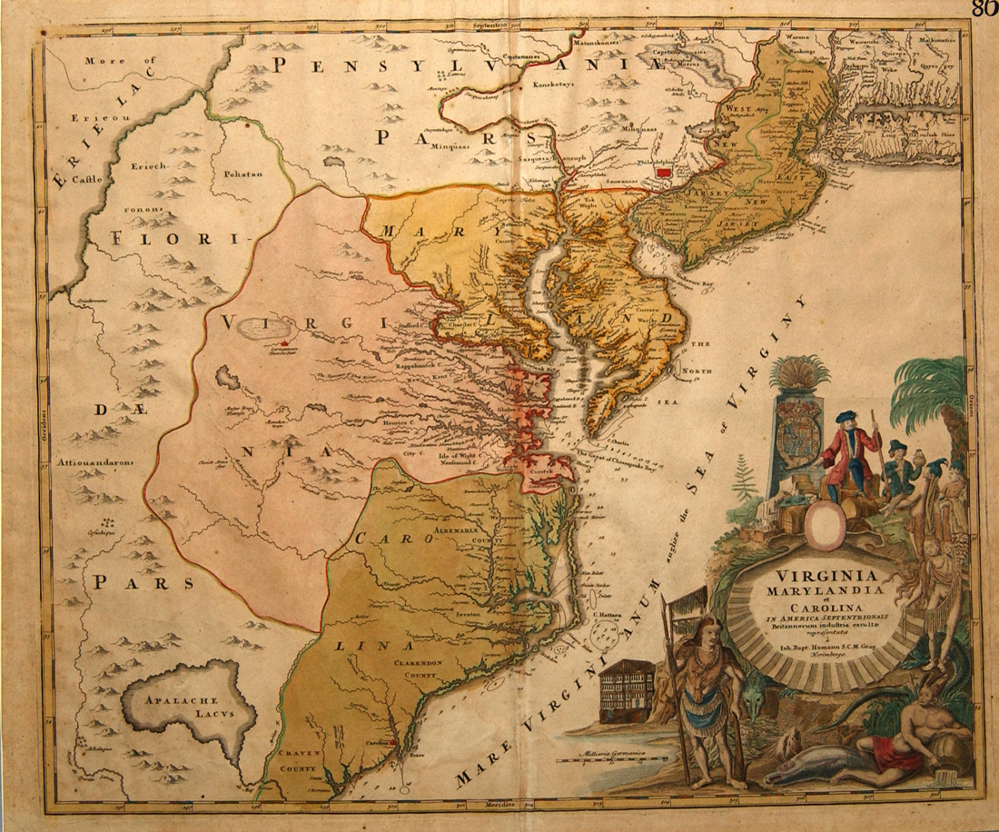 "Virginia Marylandia et Carolina," hand-colored map by Johann Baptist Homann. Courtesy of Department of Cultural Resources, Division of Archives & History, State of North Carolina.